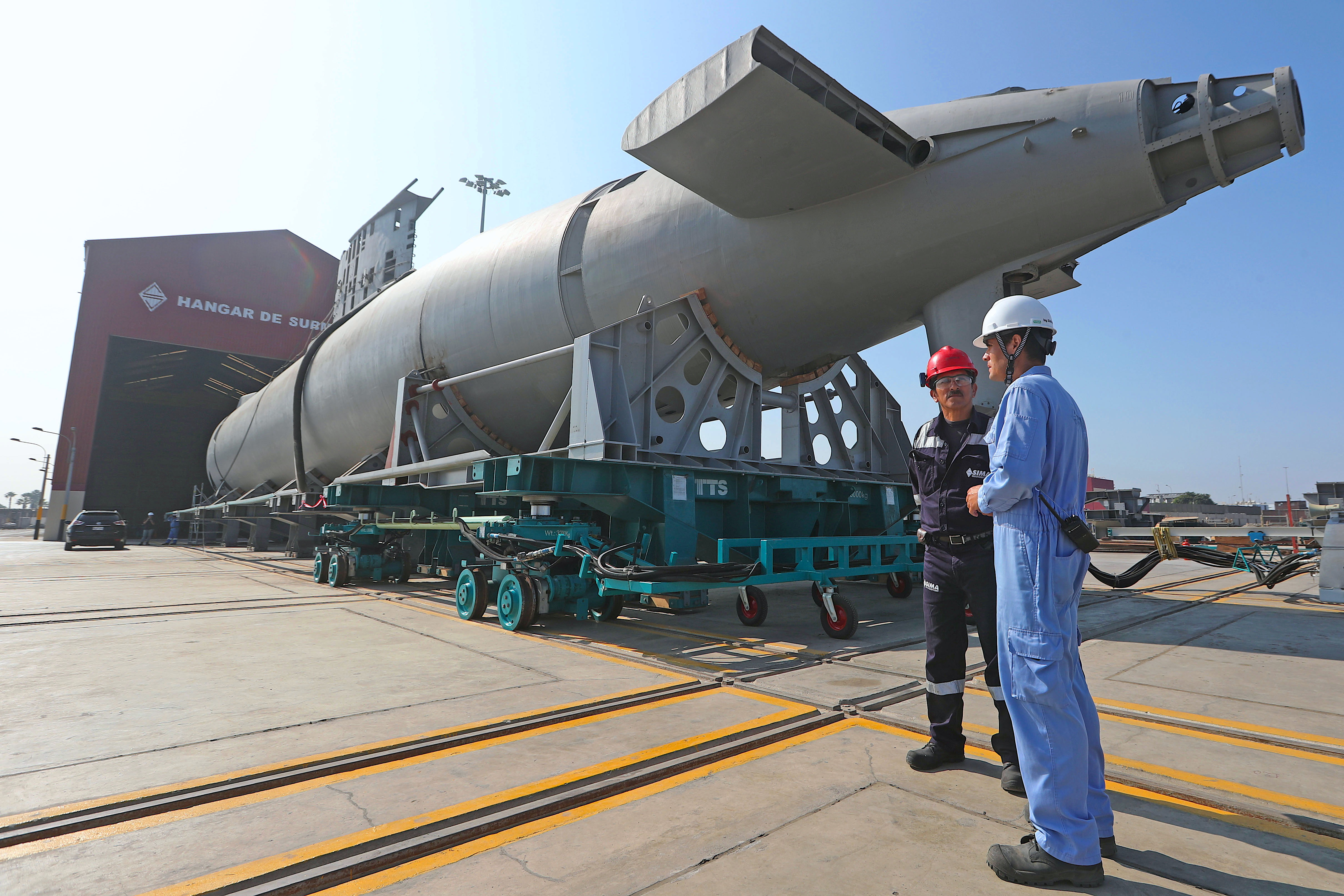 BAP Chipana undergoing upgrades during a modernization program in Peru.